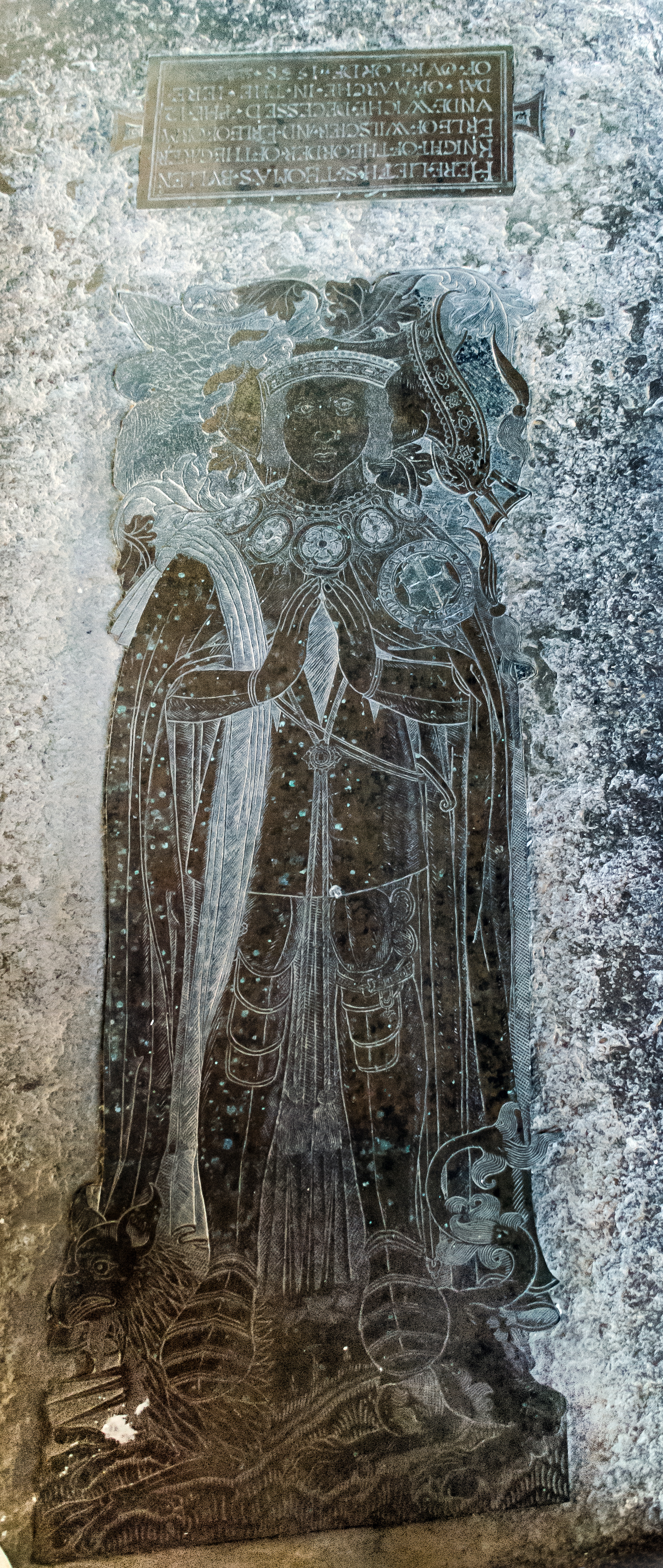 Sir Thomas Bullen died in 1538, father of Anne Boleyn. Dressed in full robes and insignia of Knight of the Garter. A falcon on his right shoulder (crest of the Bullen family) and a griffin at his feet.